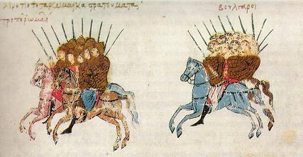 Byzantine miniature from the Madrid Skylitzes, 12th century, depicting Byzantine troops fleeing from Bulgarians at the Battle of Versinikia, 813 AD.